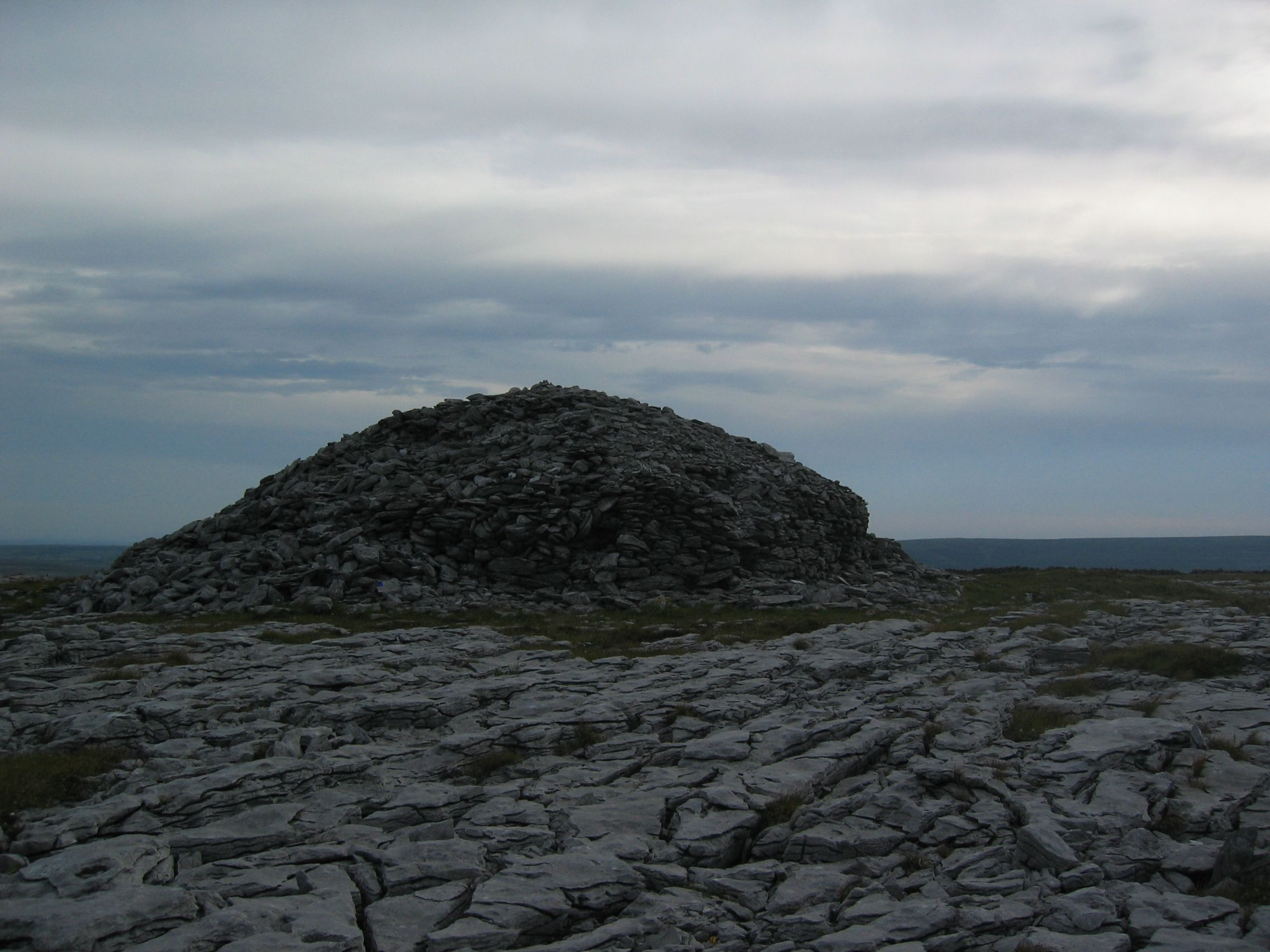 On top of the Turlough Hill / County Clare in Ireland (alt. 925 ft) facing the raided cairn (view WNW). In the foreground the typical 'limestone pavement' of the Burren area.